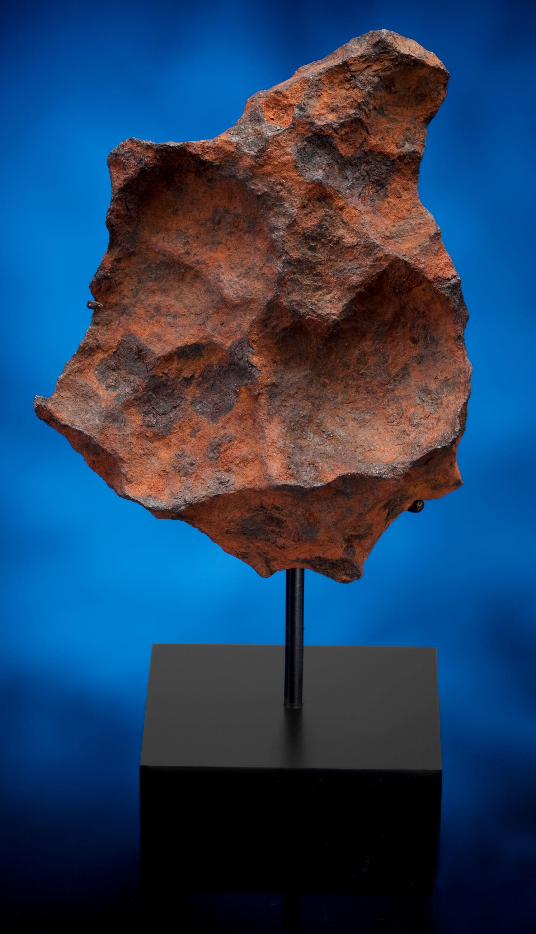 Falling to Earth approximately 4,200 years ago, the Henbury event is one of the greatest meteorite showers on record. Originally discovered in 1931 following reports of Aborigines using metallic stone tools, the Henbury meteorite fractured in the atmosphere creating a cluster of a dozen distinct meteorite craters. The bright mango patina, distinct to Henbury, results from millennia of aging in the Australian desert. The Henbury crater field is considered a sacred site to the Arrernte Aboriginal people and would have impacted during human habitation of the area. They refer to Henbury fragments as "sun... tail.. .fire... devil... stones," prompting sociologists to wonder if the Henbury impact was a witnessed event. “Aboriginal people would not camp within a couple of miles of the Henbury craters, referring to them as chindu china waru chingi yabu, roughly translating to sun walk fire devil rock. An elder Aboriginal man explained that Aboriginal people would not drink rainwater that collected in the craters, fearing the "fire-devil" would fill them with a piece of iron.” (from Wikipedia). Cue The Gods Must be Crazy or maybe the Thunder Down Under. =) The largest meterorite at Henbury is approximately 10kg. This one, just over 3 kg, is the newest addition to the space collection that is taking over our entry at work.